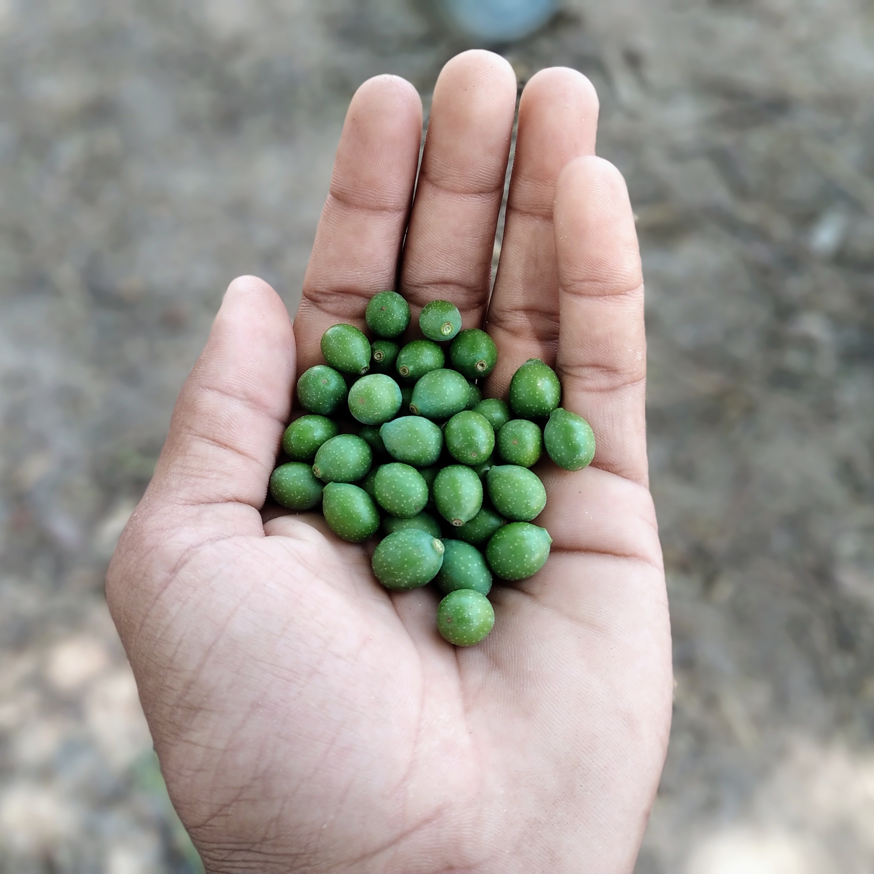 ਡੇਕ ਦੀਆਂ ਡਕੋਲੀਆਂ